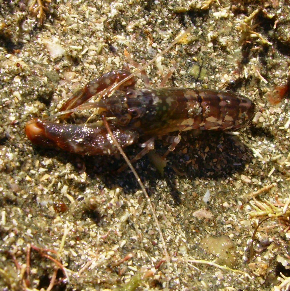 Alpheus novaezealandiae, from Whangaparaoa, New Zealand. This work has been released into the public domain by its author, Graham Bould. This applies worldwide.In some countries this may not be legally possible; if so:Graham Bould grants anyone the right to use this work for any purpose, without any conditions, unless such conditions are required by law. .